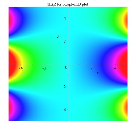 Shi(x) Re complex density plot